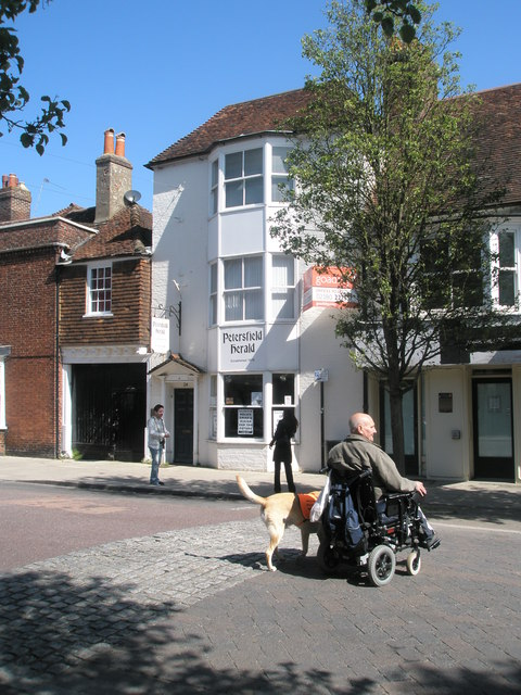 Offices of the Petersfield Herald in the High Street